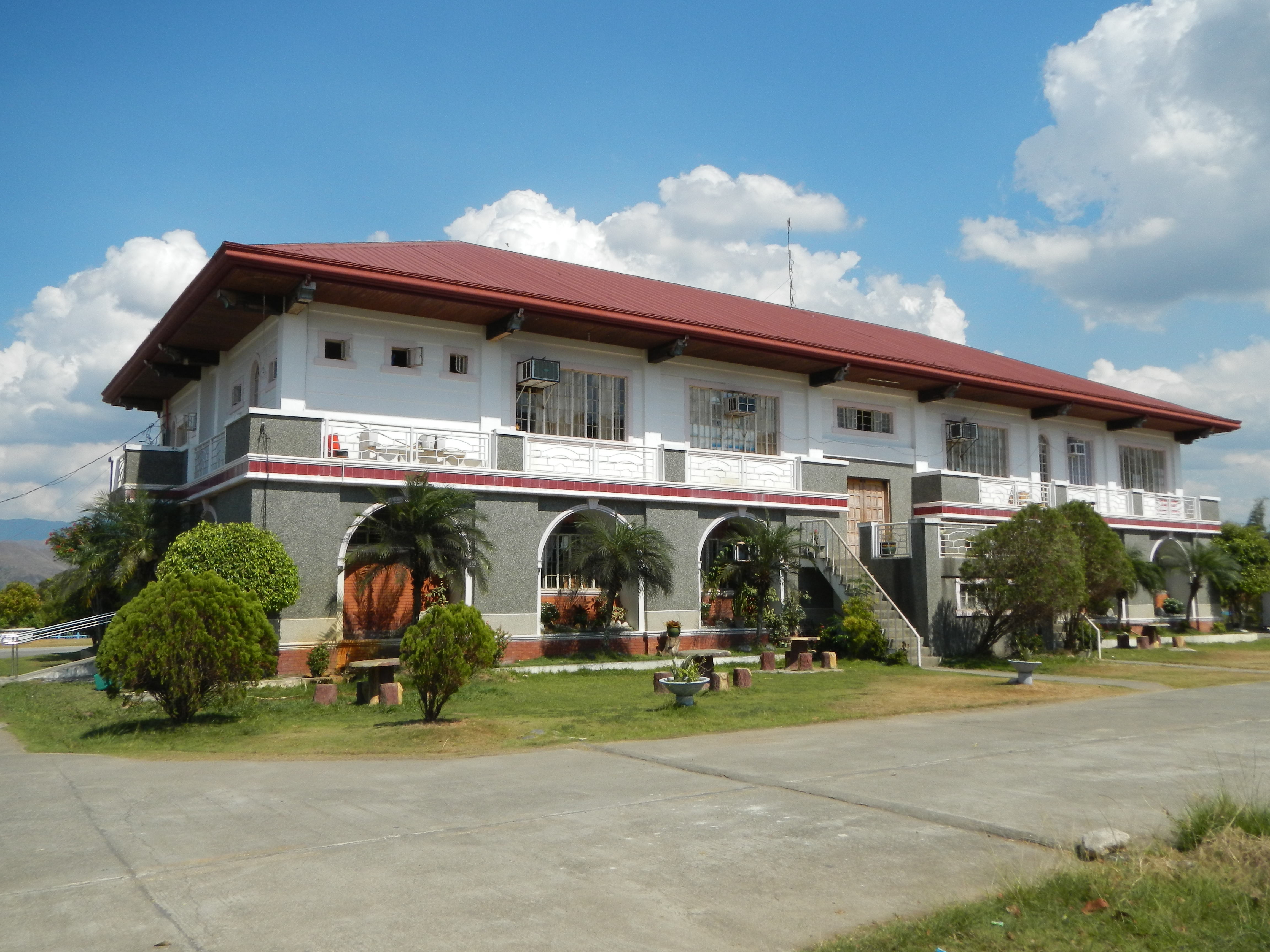 Aritao-Quirino road in Dupax del Norte, Nueva Vizcaya: the Saint Anne Parish Church of Dupax del Norte, Nueva Vizcaya, the Welcome Sign, beside the Elementary School, towards the New Town Hall Complex which includes the Police Station and Oval of the Cong. Padilla Sports Complex beside the3 Dupax del Norte District Hospital.